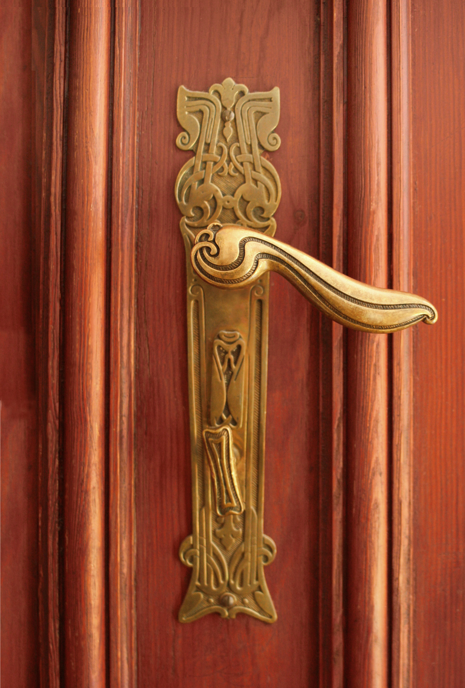 Art Nouveau door handle, Berlin, Gutzkowstr. 7